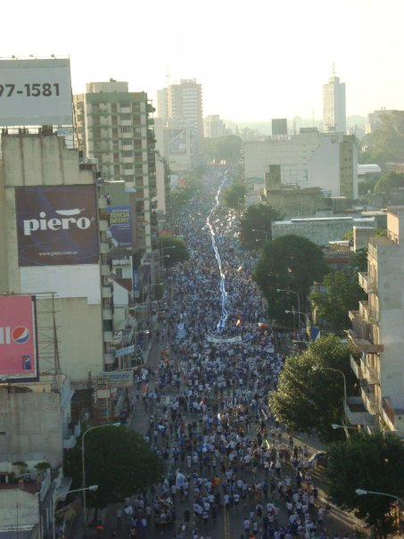 70.000 personas en la Caravana del Centenario del Club Atlético Vélez Sarsfield, Buenos Aires Argentina